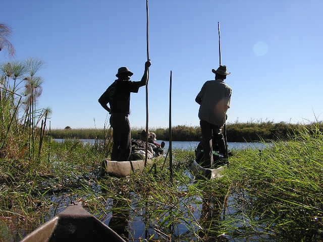 Two Mokoro polers and their charge waiting for hippos to surface in the Okavango Delta, August 2004.